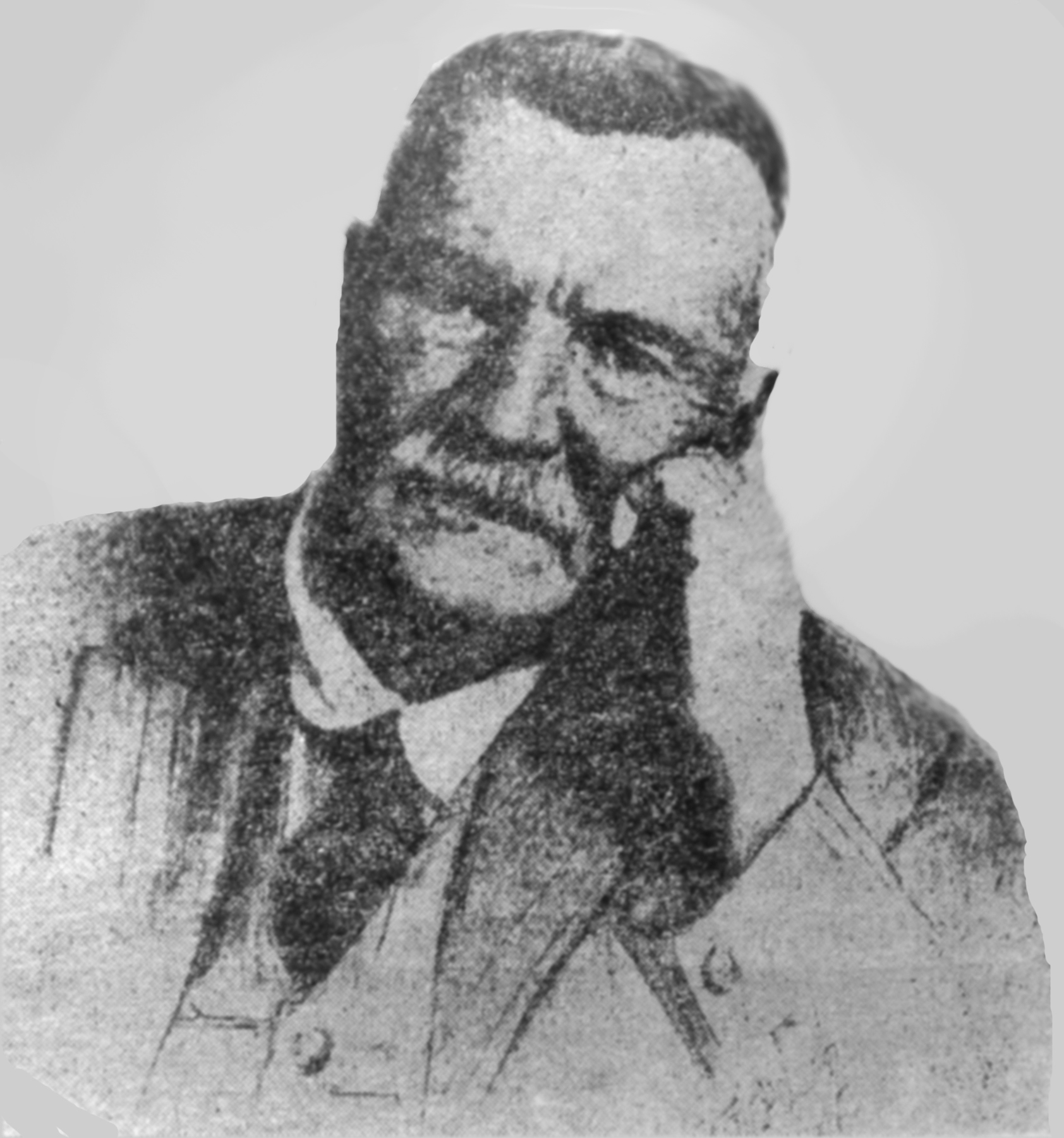 A photographic portrait of V. Kovalevsky